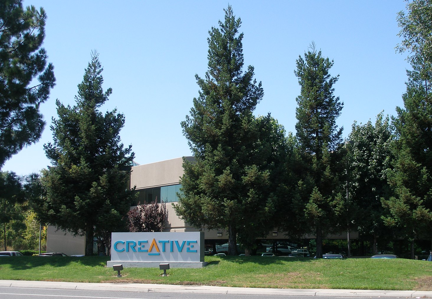 The headquarters of Creative Labs, Creative Technology's American subsidiary, in Milpitas, California (next to Montague Expressway). Photographed on August 24, 2006 by user Coolcaesar.